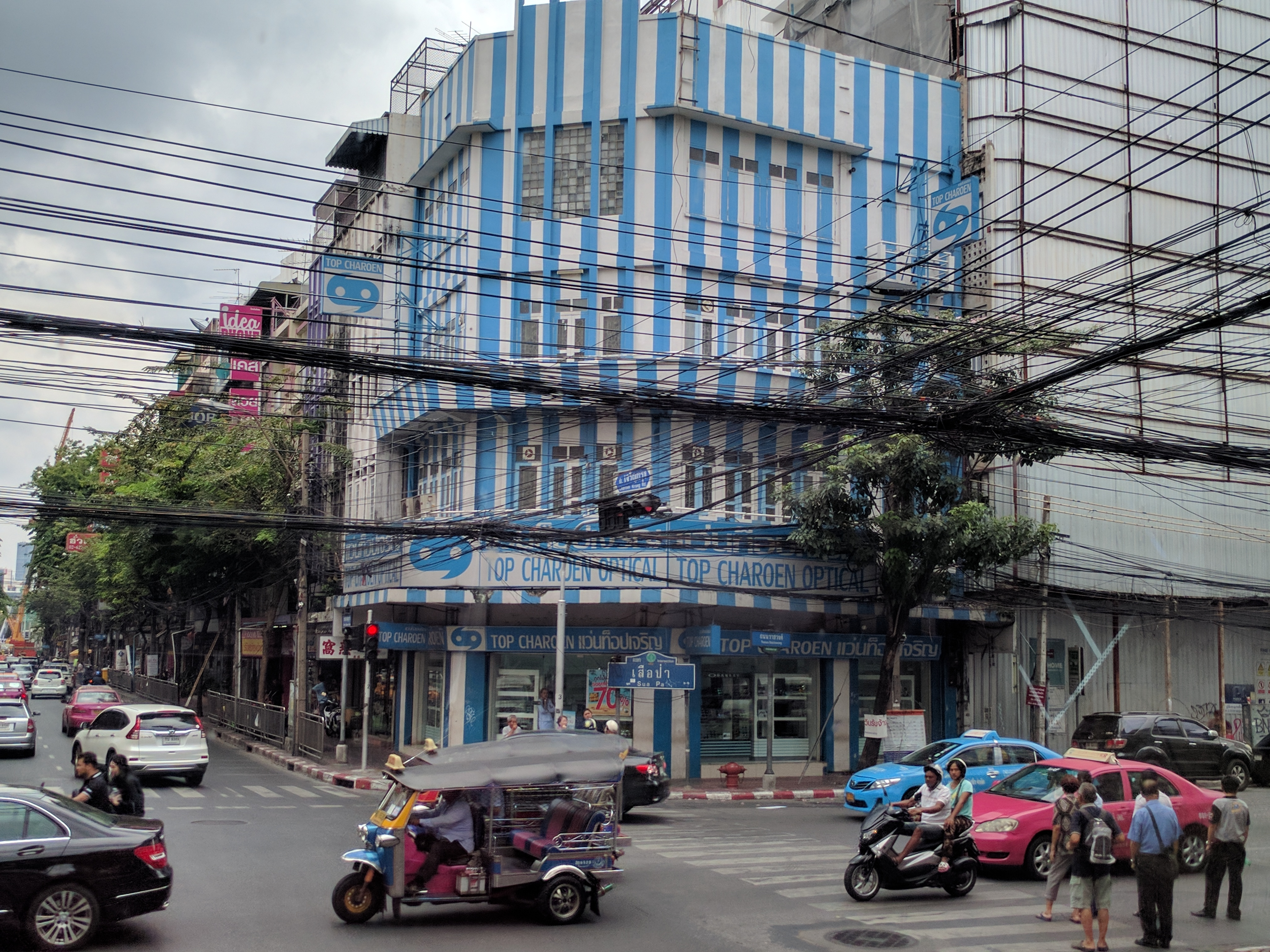 Densely packed utility lines cross at a street intersection in Bangkok, looking northeast along Ratchawong Road across Charoen Krung Road.